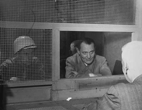 Defendant Hermann Goering consults with his lawyer, Dr. Otto Stahmer, in the Nuremberg prison at the International Military Tribunal trial of war criminals, Nuremberg, [Bavaria] Germany.